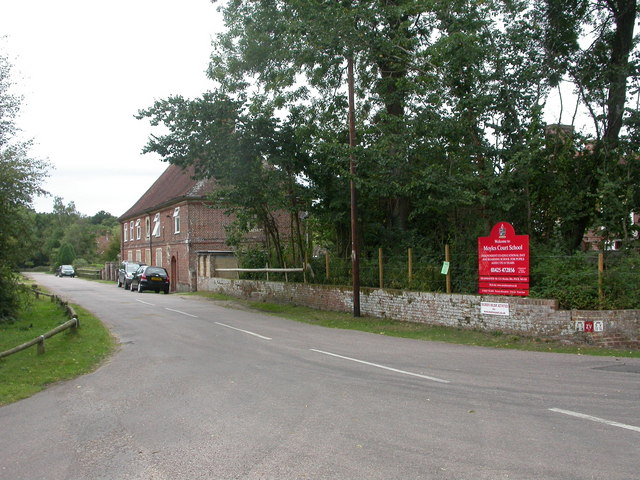 Moyles Court School Independent school in Ellingham